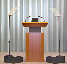 Presidential_Type Teleprompter